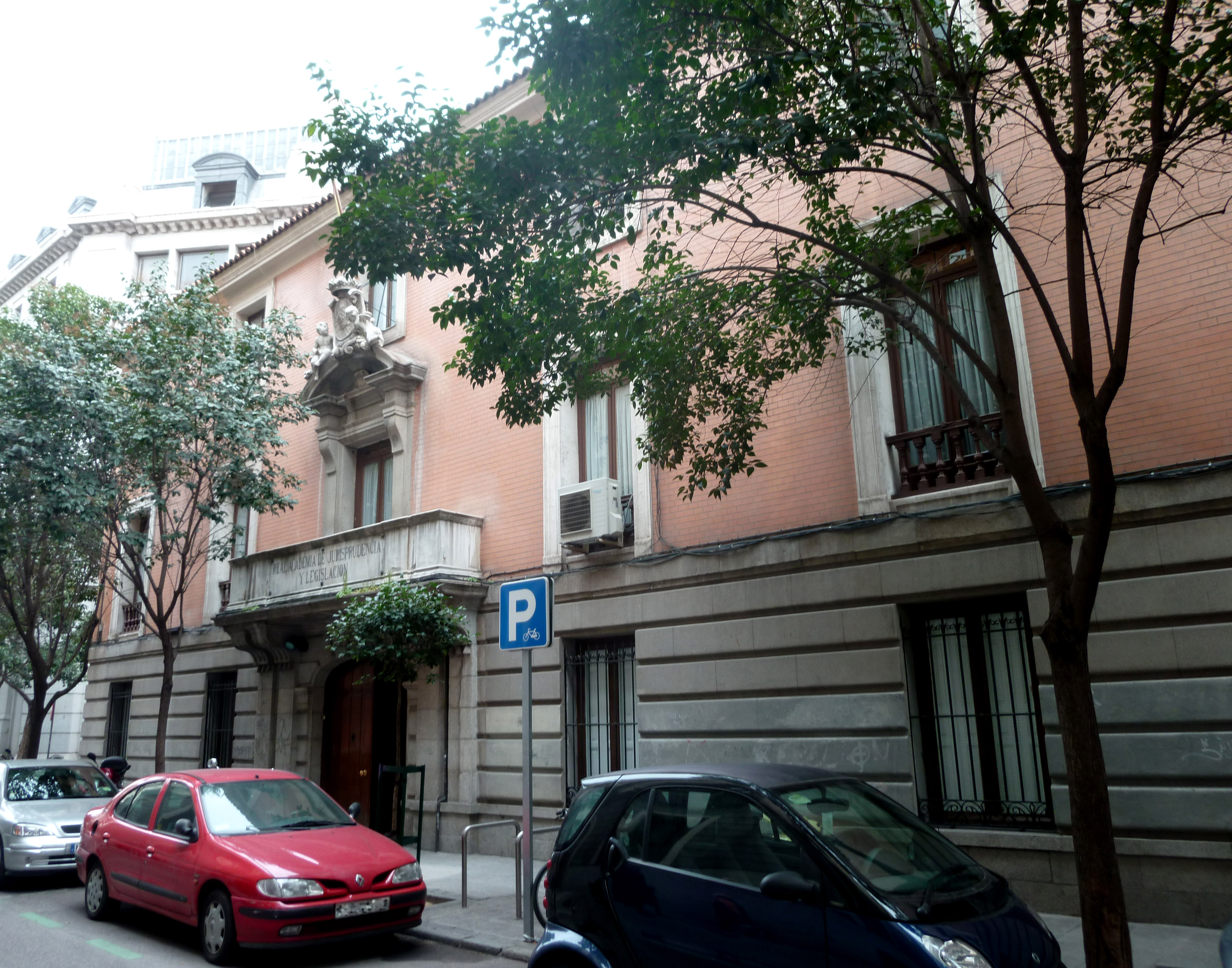 Seat of the Spanish Royal Academy of Jurisprudence and Legislation, at 13 Calle del Marqués de Cubas (street) in Cortes neighborhood in Madrid. Building was projected by Manuel Martín Rodríguez and built in 1798.